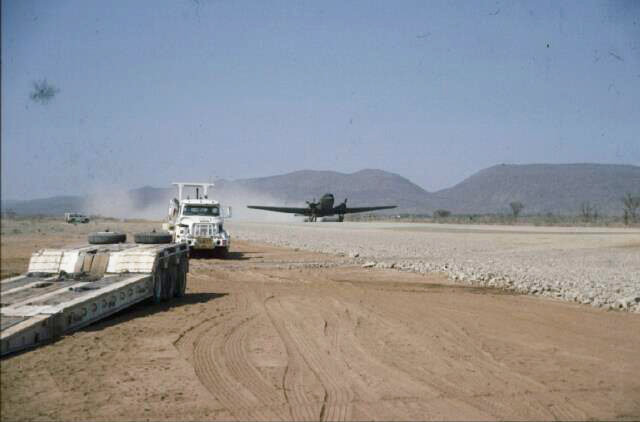 Photograph of the airstrip at Opuwo during upgrade works performed by the 17th Construction Squadron during the UNTAG deployment